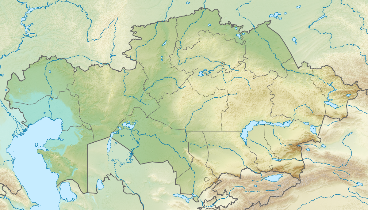 Location map of Kazakhstan Equirectangular projection, N/S stretching 150 %. Geographic limits of the map: N: 56° N S: 40° N W: 46° E E: 88° E